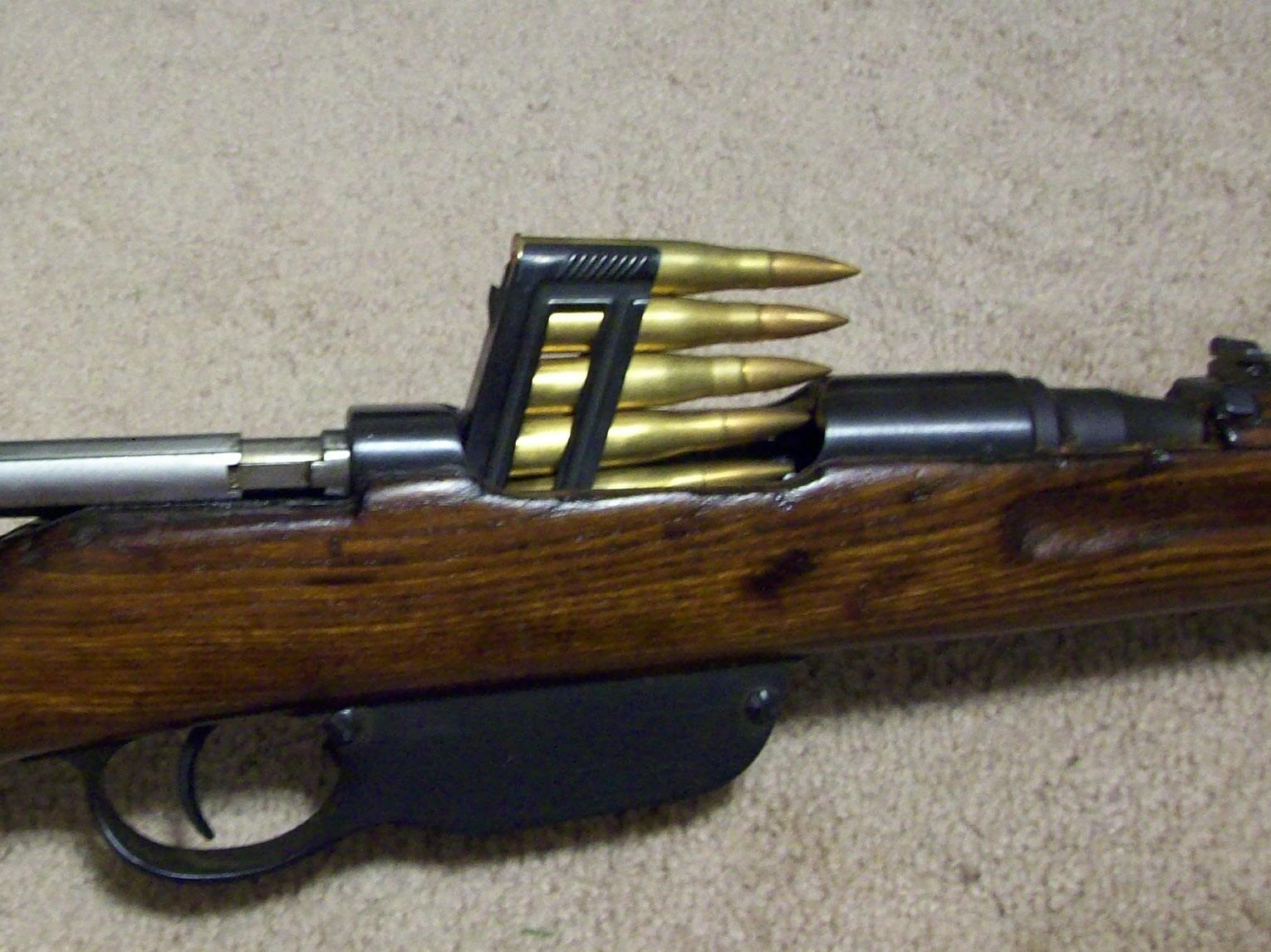 Image of 8x56r in an en bloc type clip being loaded into a M95 carbine rifle.